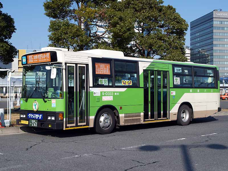 Tokyo Metropolitan Government Bus (Tobus) "Green Arrows" in Tokyo Teleport Station. Green Arrows are operating in mainly Harumi Street, every Saturday and Sunday operating between Tokyo station(Marunouchi) and Tokyo Teleport station. Model: Hino Blue Ribbon HU (KC-HU2MLCA: One-step Low-floor type) License plate: TKA200KA-263（足立200か・263） Operator's own number: S-D333 (Fukagawa Dept) Place: TWR Rinkai-line Tokyo Teleport station: Aomi, Koto-ward Tokyo, Japan